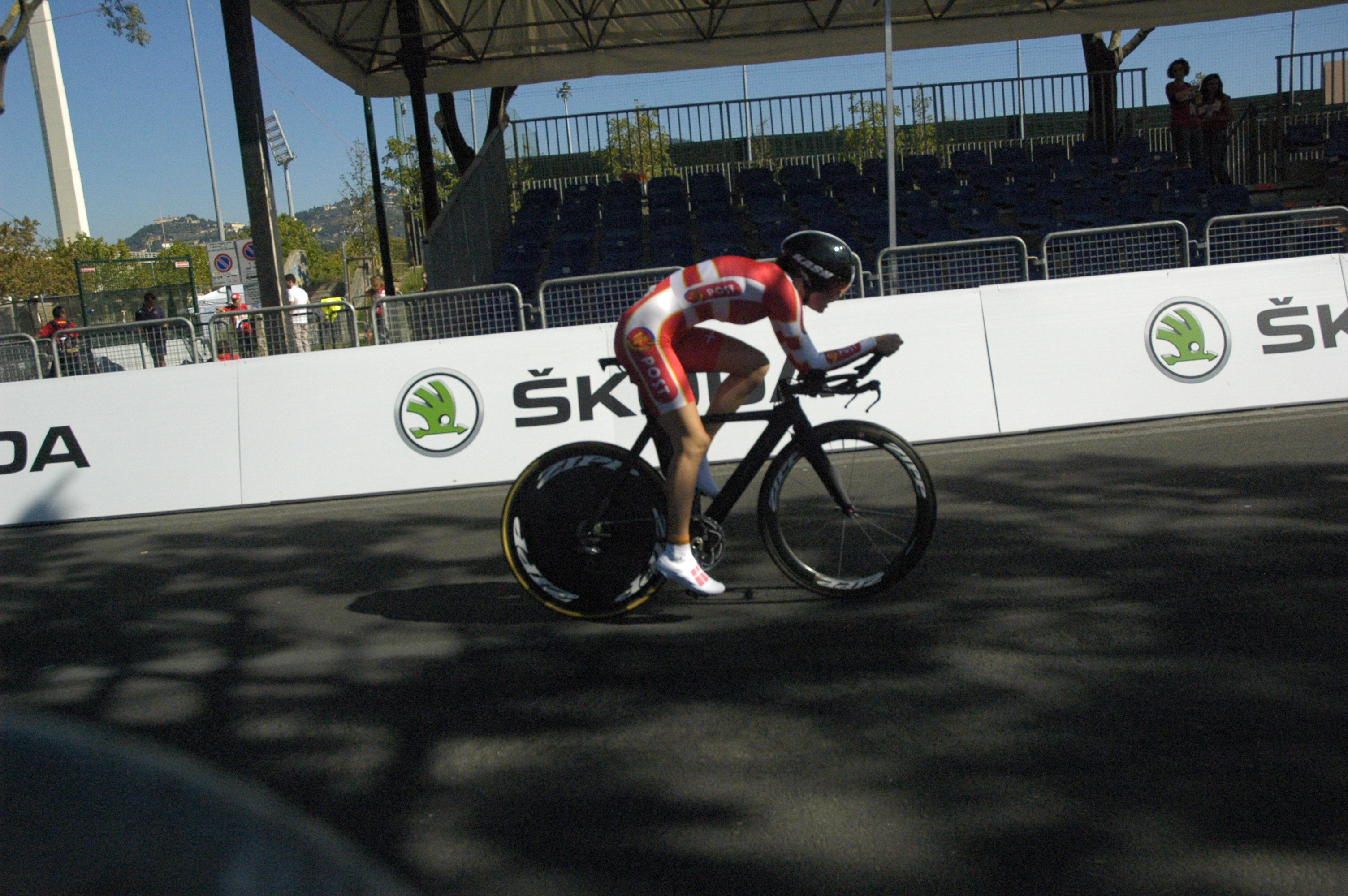 2013 UCI Road World Championships, Amalie DIDERIKSEN